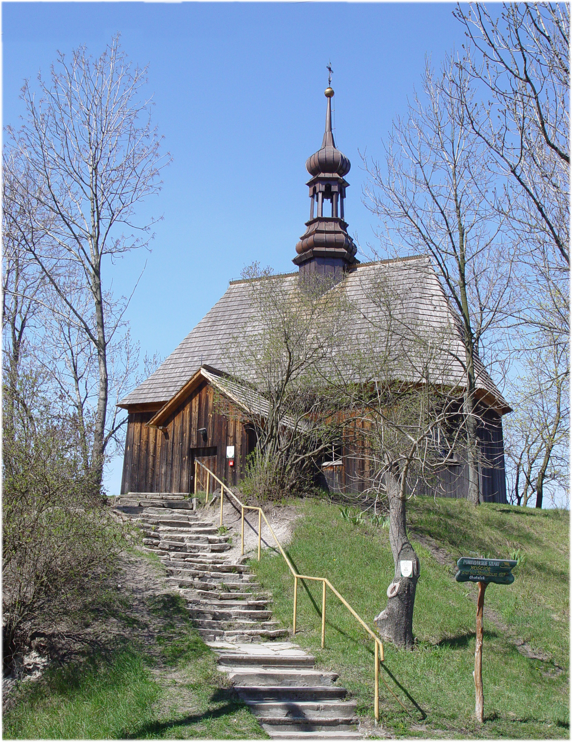 Church in Chotelek Zielony, Poland